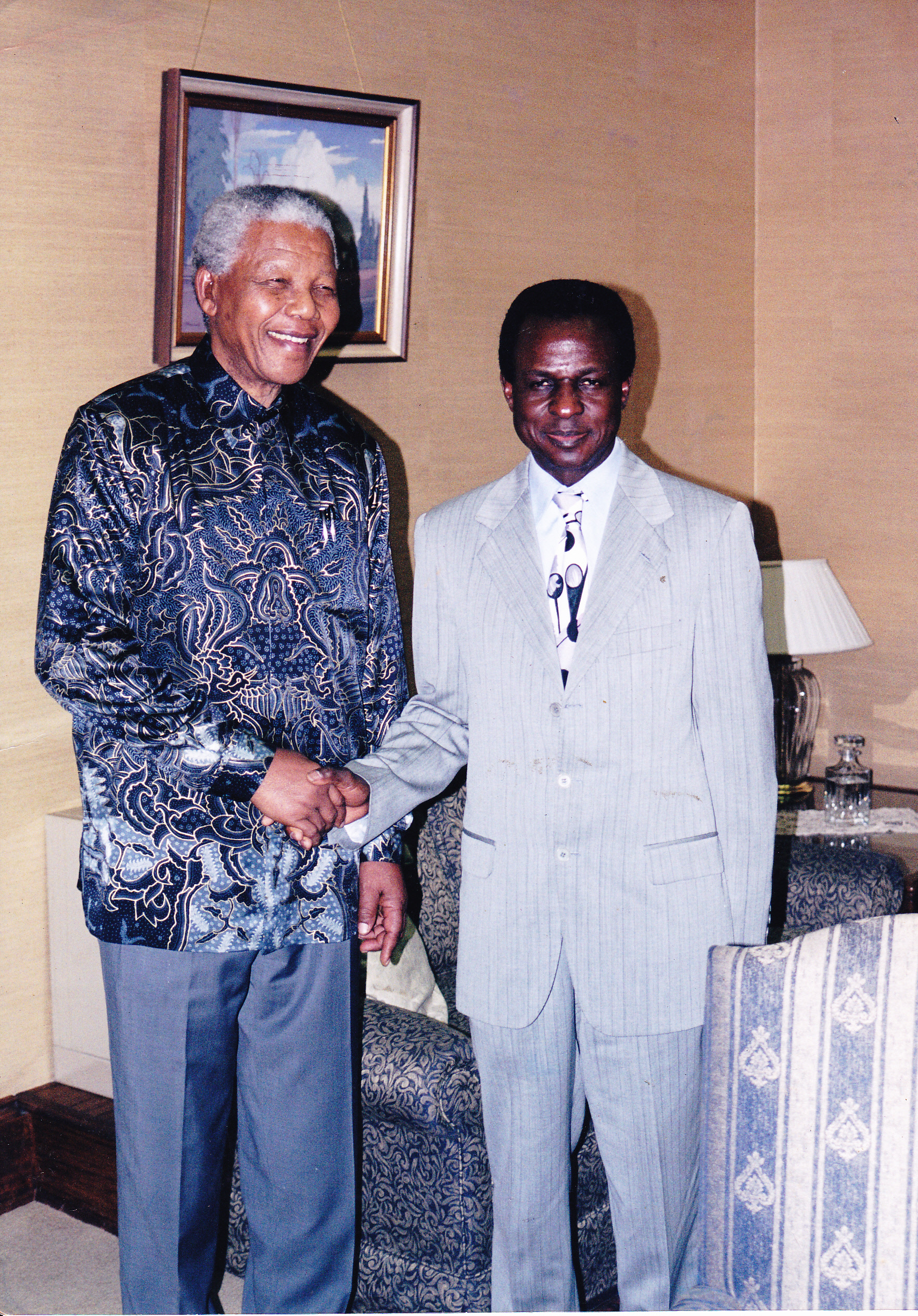 Emmanuel_Dungia_&_Nelson_Mandela_19970807